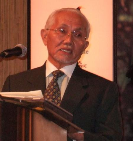 Pehin Sri Haji Abdul Taib bin Mahmud, Chief Minister of Sarawak, at an international media and environment summit in 2005.